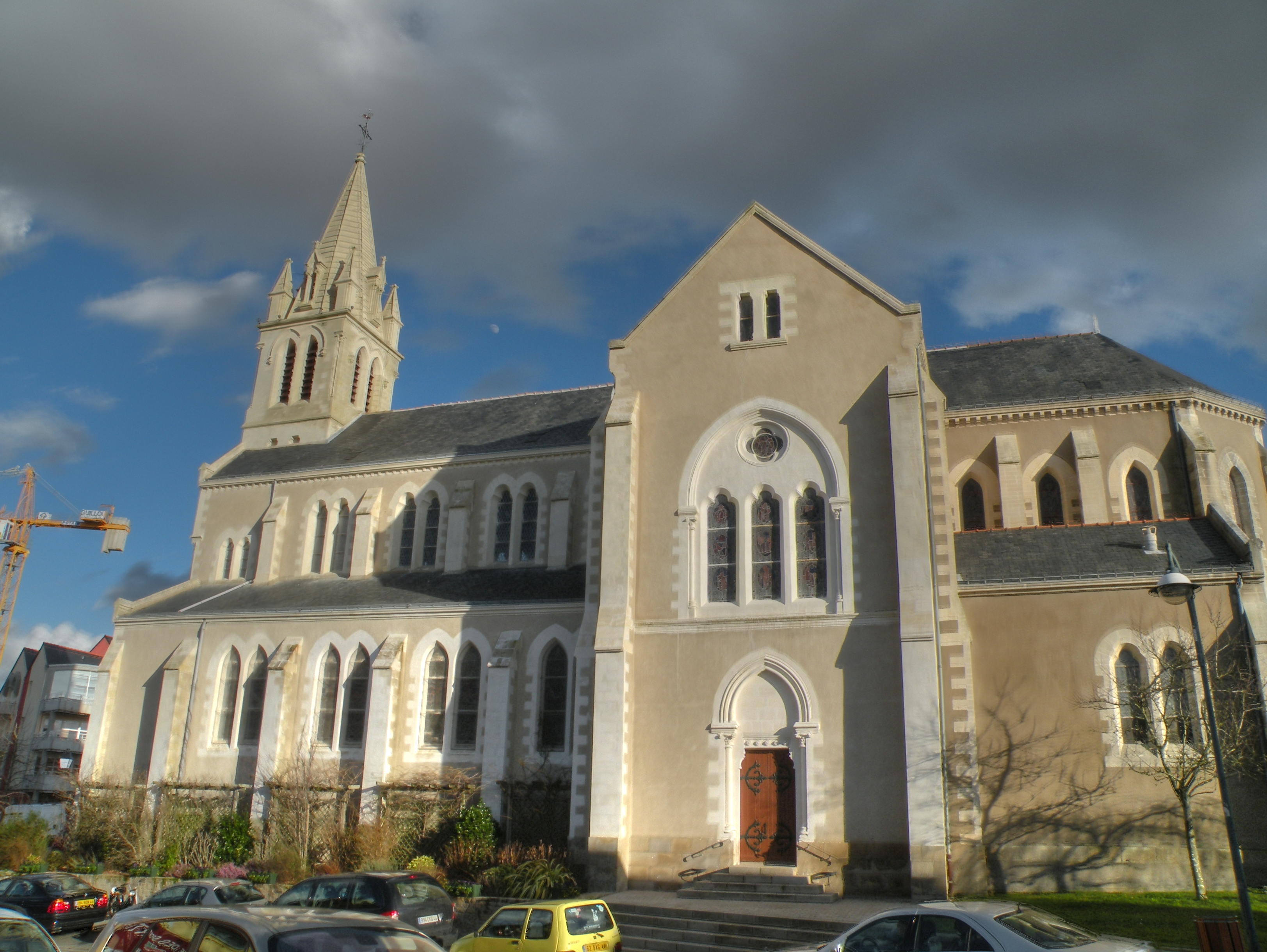 Church of Basse-Goulaine